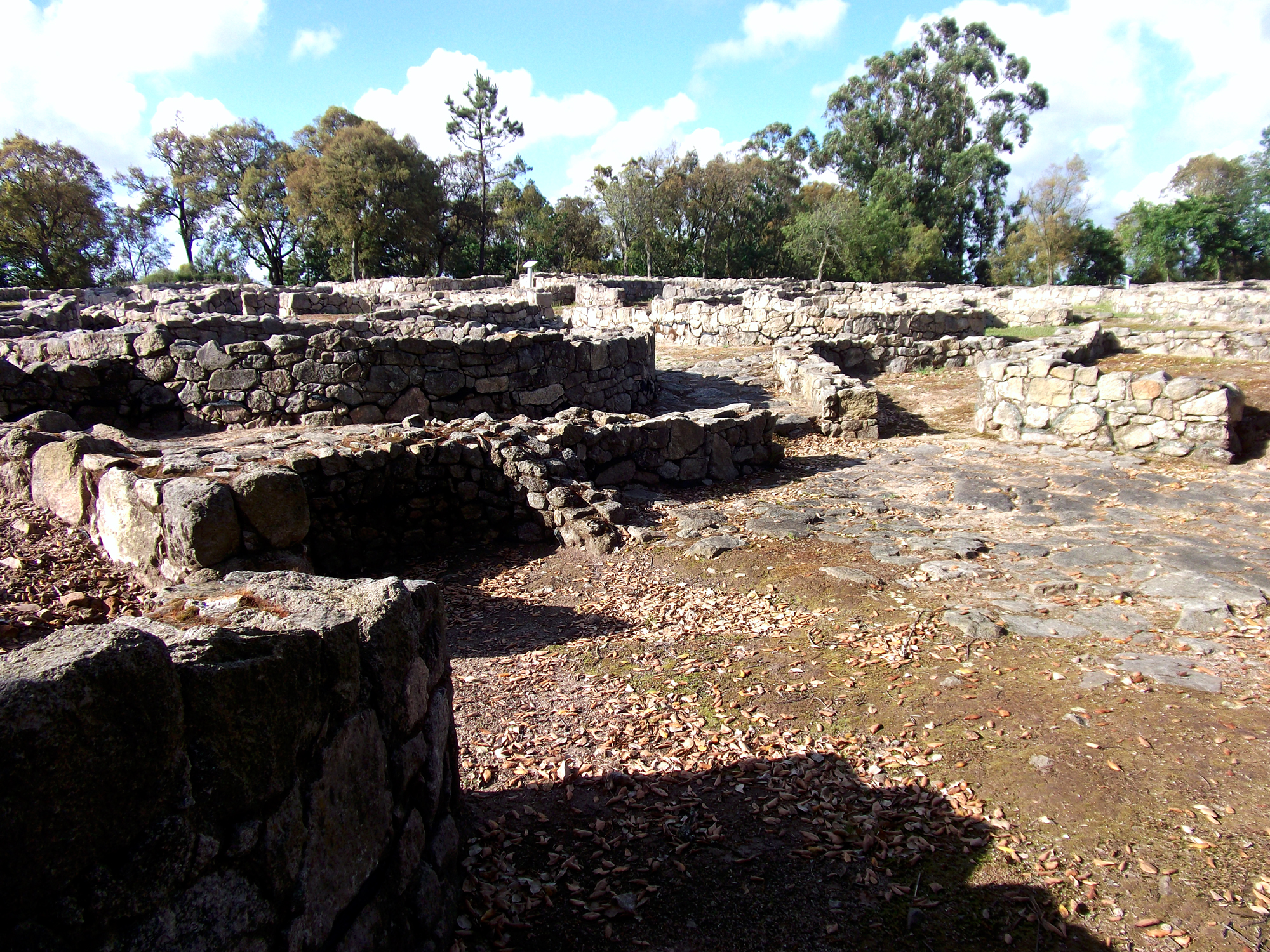 Ruins in Cividade de Terroso